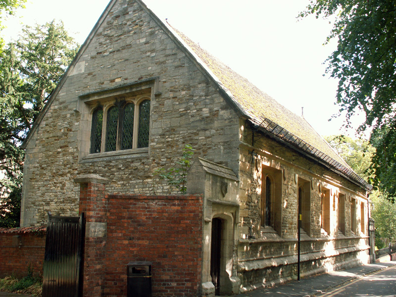 The Original Kings School, Grantham, Lincs, England, the building where Isaac Newton was taught.